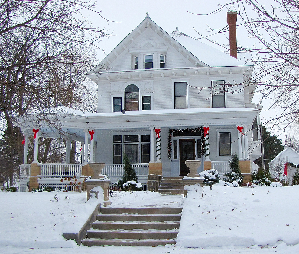 The W. W. Smith House in Sleepy Eye, Minnesota, on the National Register of Historical Places.